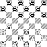 Tabia draughts opening "Otygrysh" in russian checkers